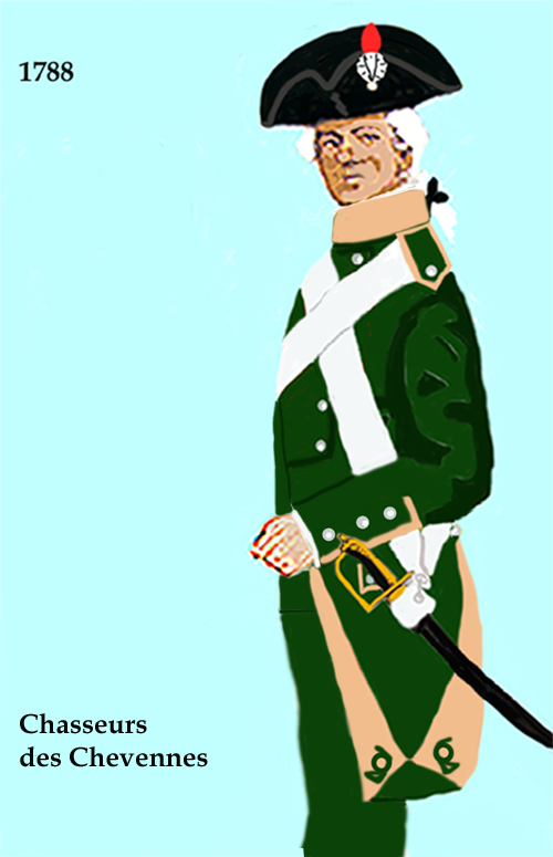 Uniforms of the french rifles of foot in 1788